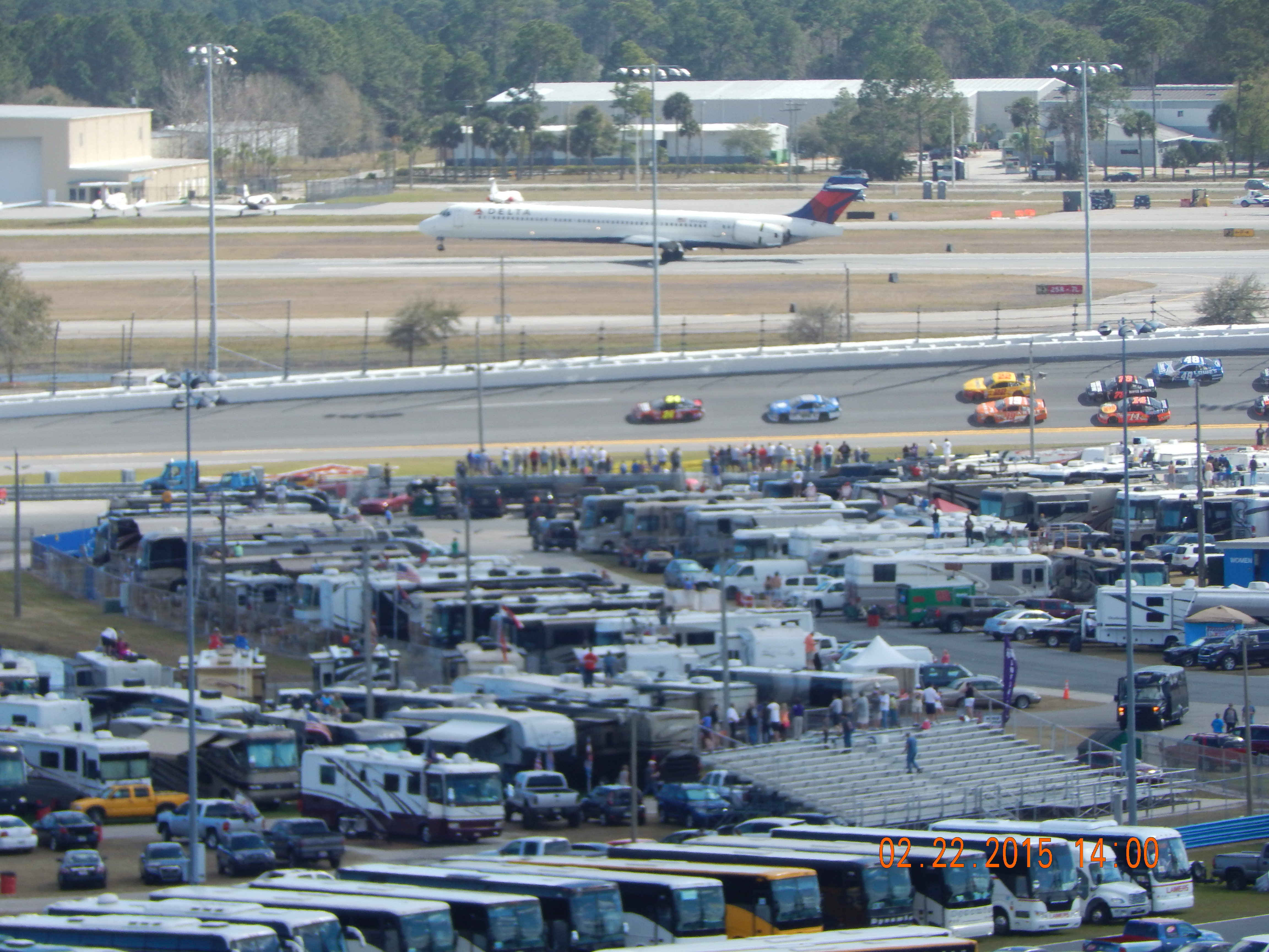 A Delta Air Lines plane is landing as the field races by (this picture is the one I'm most proud of).